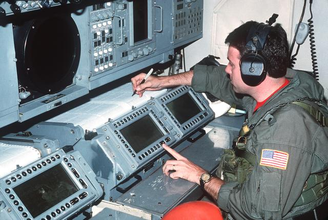 On board a Lockheed P-3C Orion aircraft of Patrol Squadron 68 (VP-68), Chief Aviation Warfare Operator B. Hayden is testing sonar gear during a counter-narcotics flight out of Naval Air Station Roosevelt Roads, Puerto Rico, on 8 Nov 1995. Navy Reservists from Patrol Squadron Five (VP-5) were supplementing the regular crew as part of their reserve training.